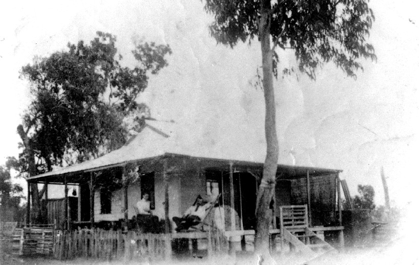 Constable Daniel Fitzgibbon and his wife relax on the verandah of the Laura Police residence, 1906. Laura Police Station opened in 1877 with Sub-Inspector 1/c Hervey Fitzgerald in charge. It is still a single officer station today and is staffed by a Senior Constable. Image No. PM0190 Courtesy of the Queensland Police Museum.